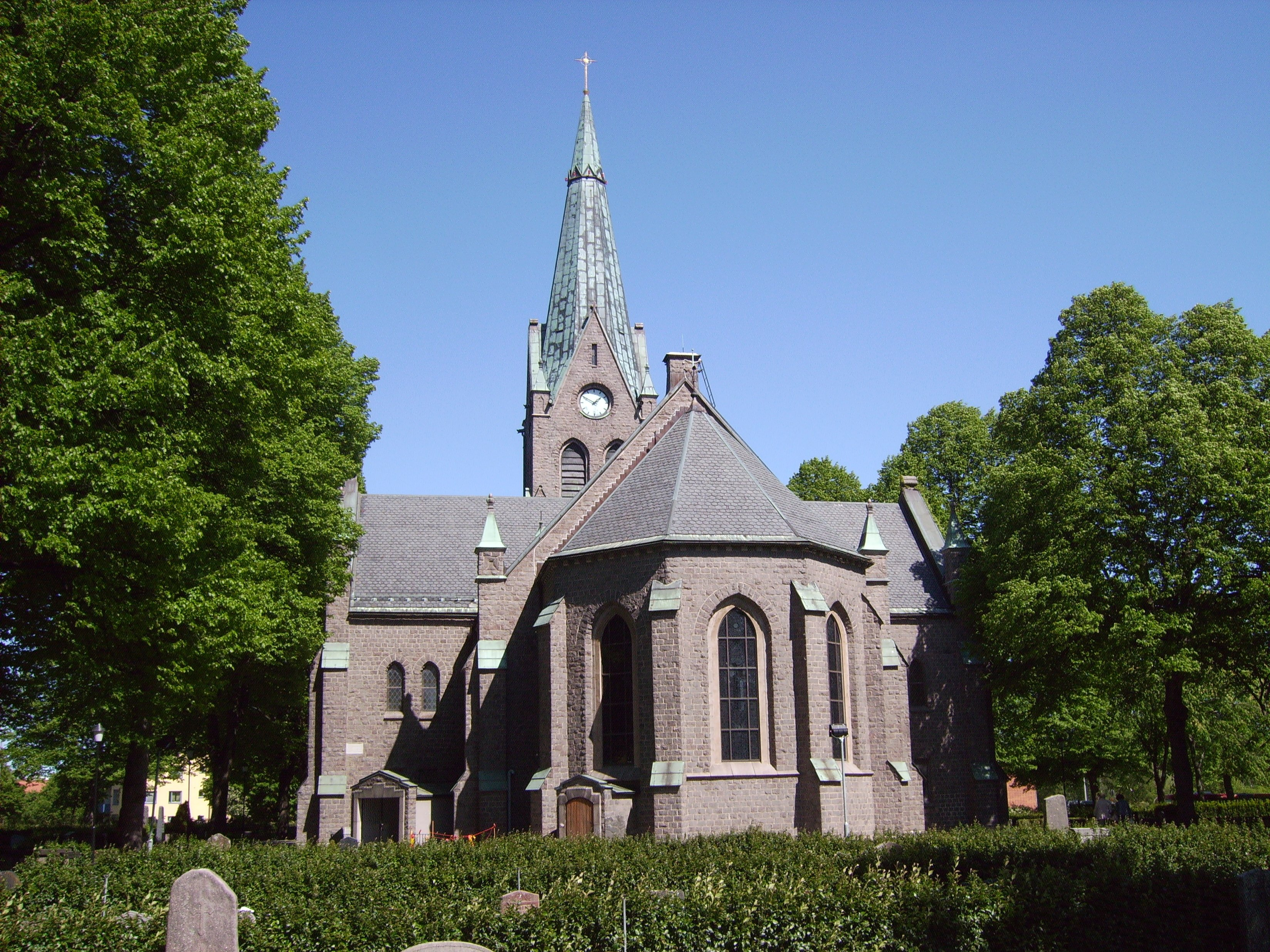 Saint John's Church - the new one from 1906 - (the older medieval church still exist on the head street Drottninggatan in the city, today they call it for Hörsalen, because 1913 it have been rebuilt to concert house) in Norrköping.